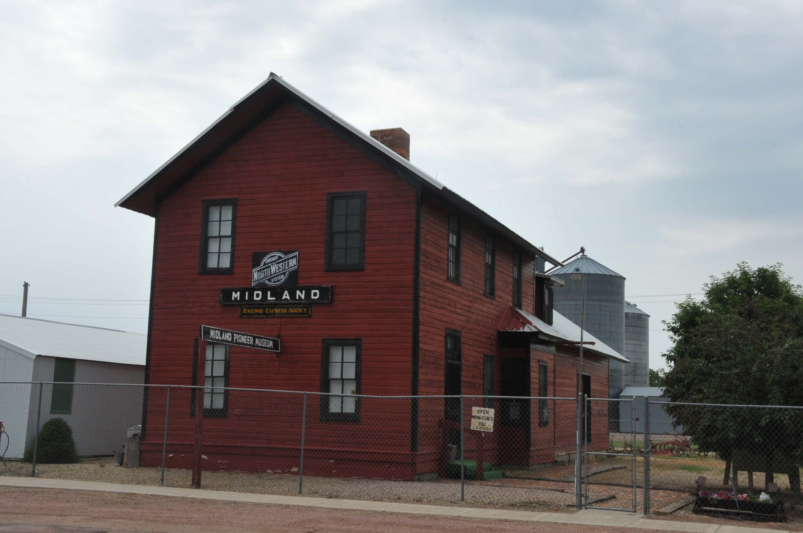 Dedicated to the preservation of the pioneer lifestyle, this museum features a homestead shack, pioneer machinery, and pictures related to the historical past of the surrounding community.